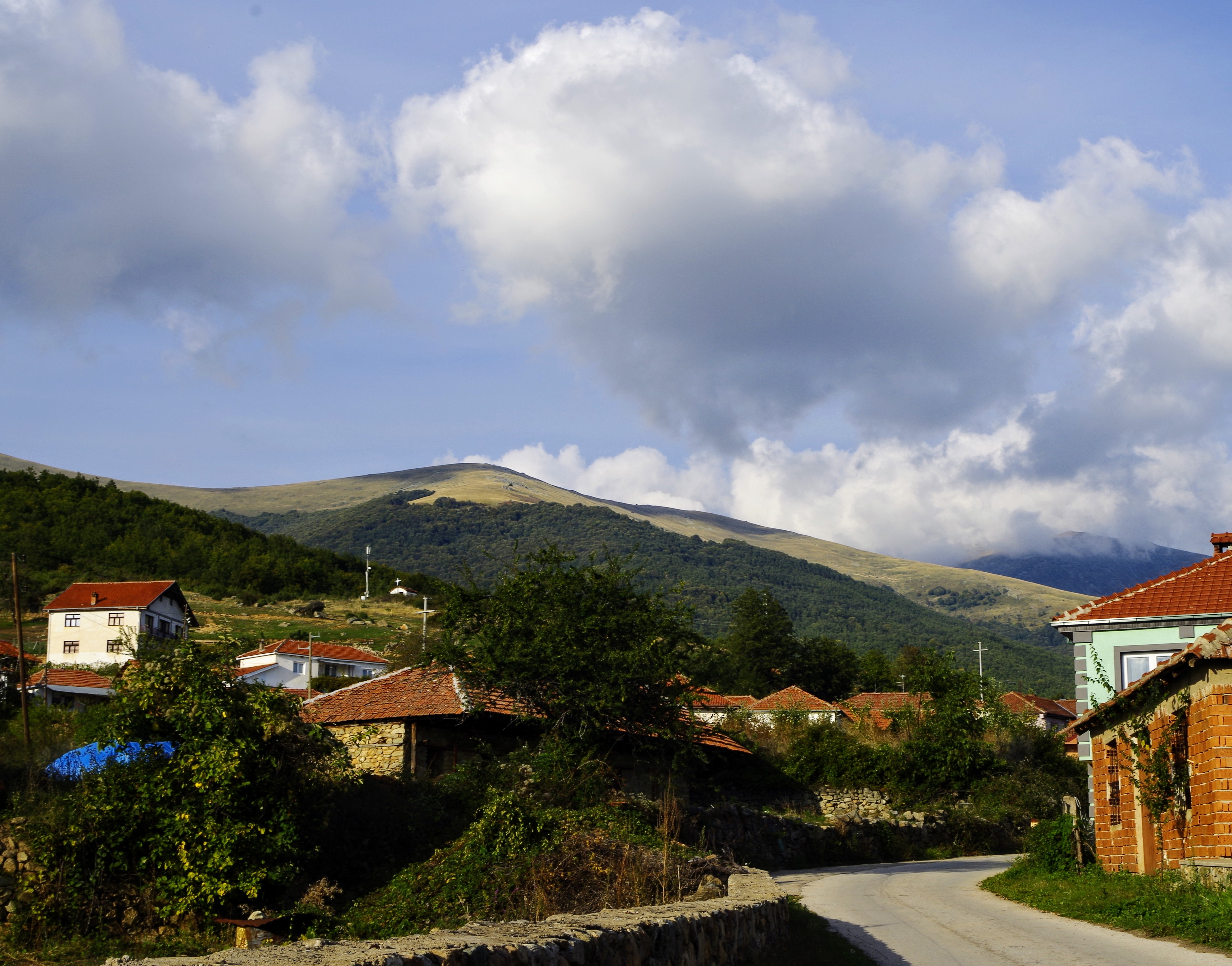 View of the village Arvati